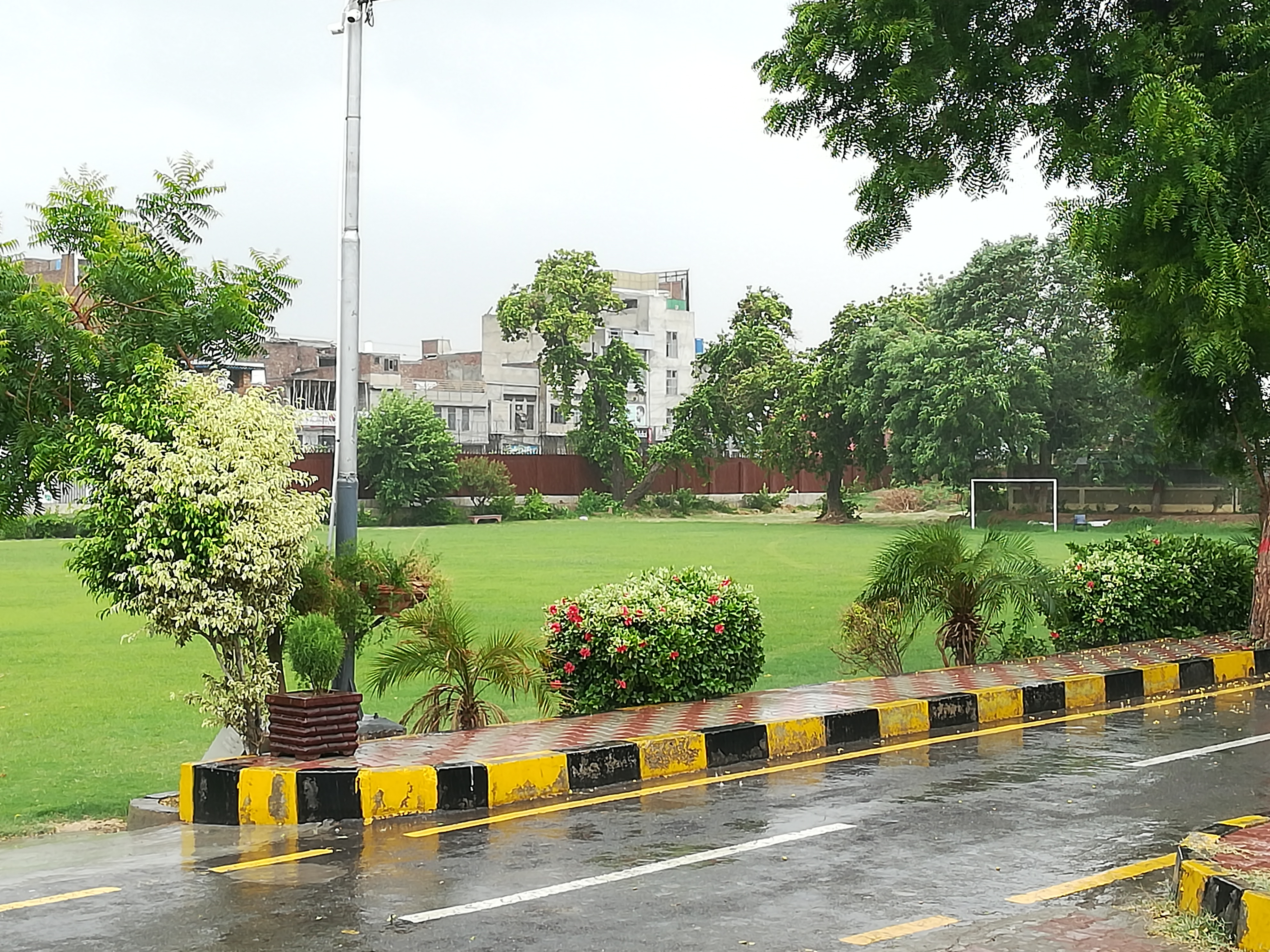 A grassy lawn of a government university